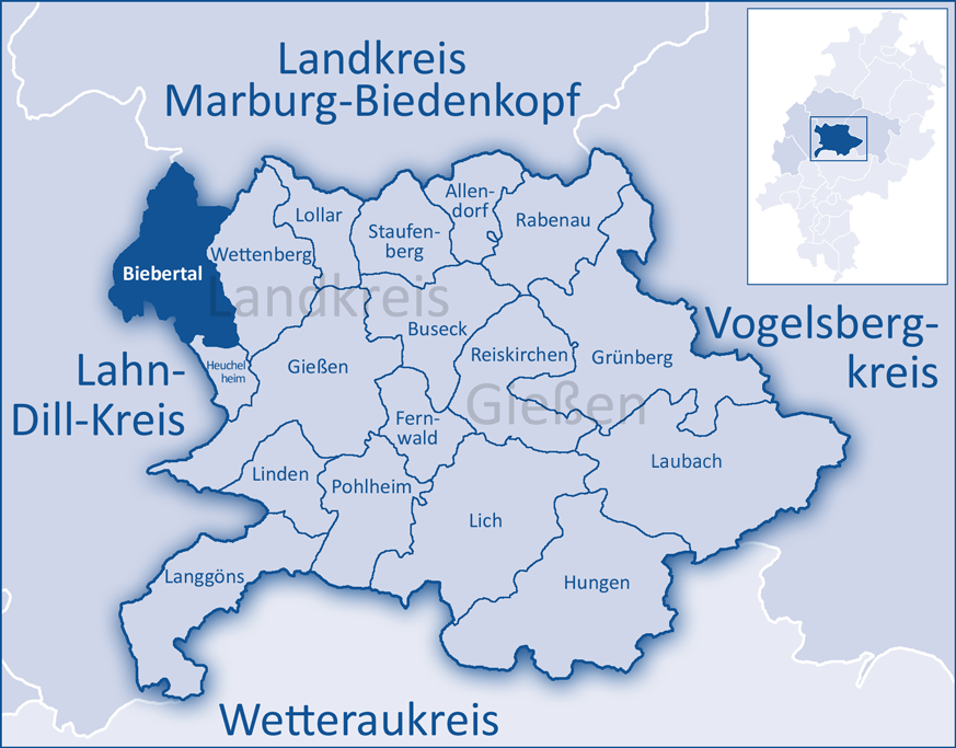 The map shows a district in the area of Gießen (district)